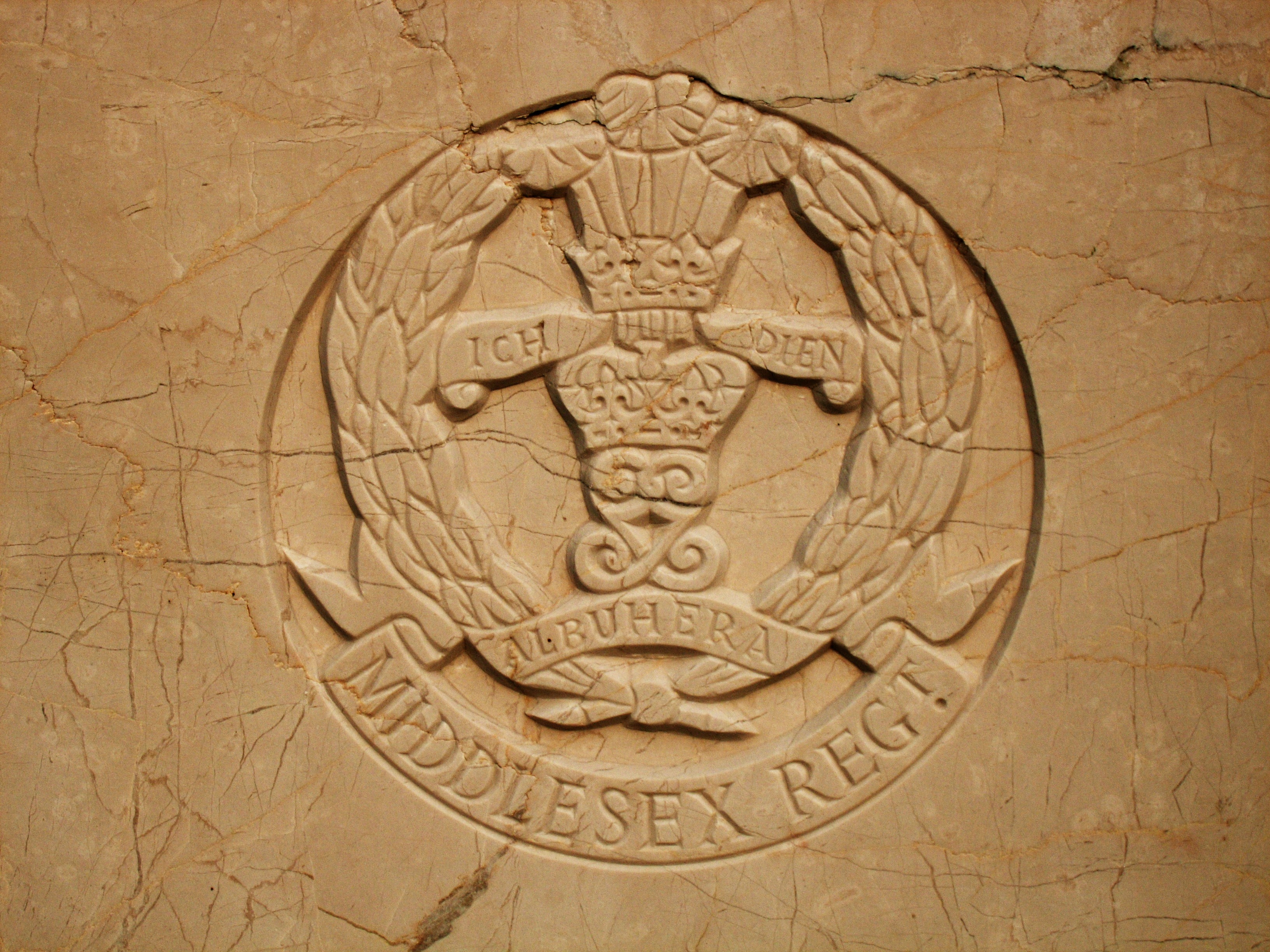 Coat of Arms of the Middlesex Regiment as inscribed on the grave of Private W.A. Law (died 1942), at Stanley Military Cemetery, Hong Kong